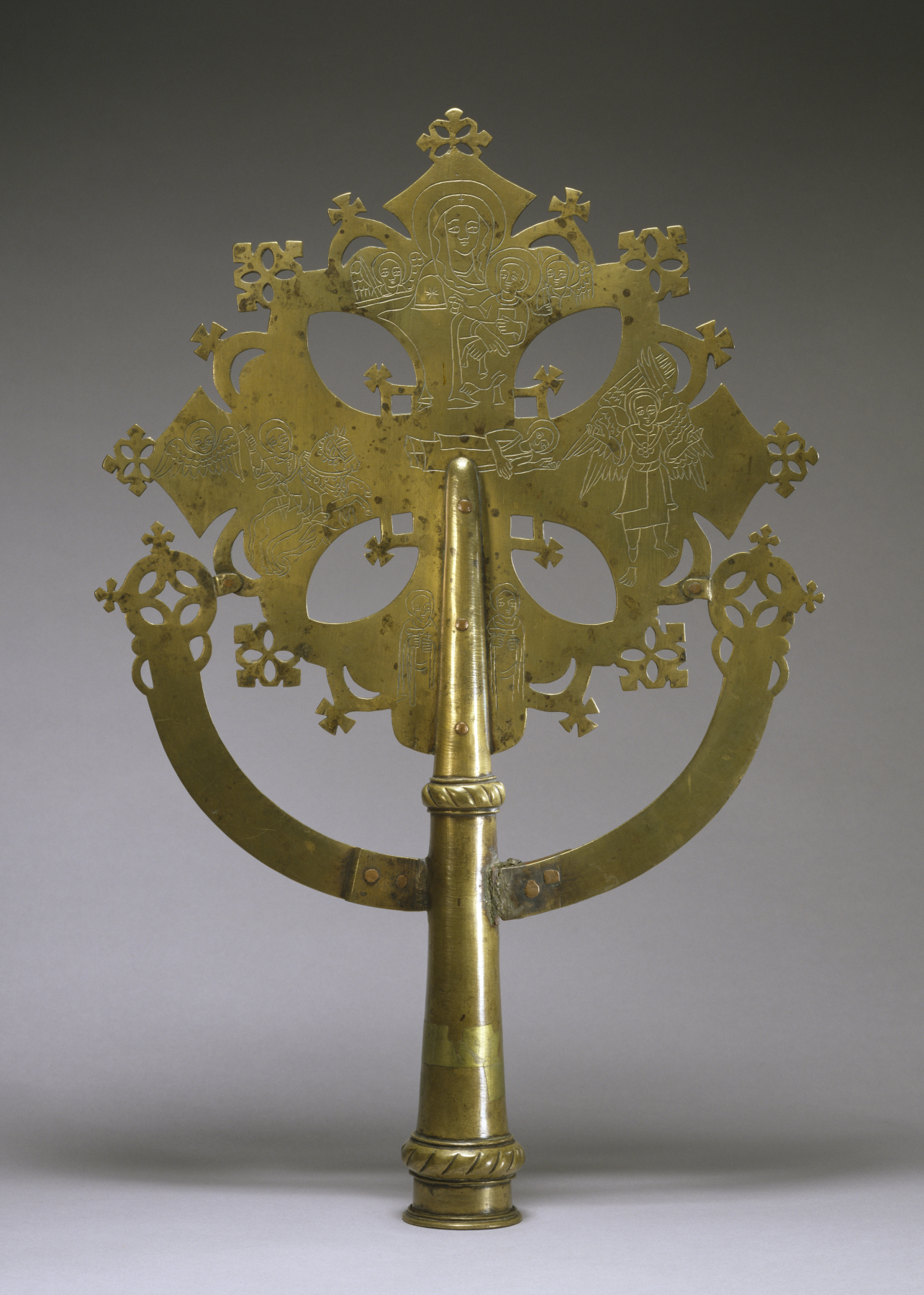 Although brass gradually replaced bronze as the primary material for crosses during the 15th century, crosses with incised figural decoration on the arms as well as the central panel did not appear until the Gondarine period. Unlike the earlier crosses, which were cast using the lost-wax technique, the separate components of this cross were cut from a flat sheet and welded together. The cross is, therefore, composed of three separate pieces that have been riveted to the shaft. The two lower arms supported the fabric dressing required for all processional crosses. Their attachment to the transverse arms of the main cross, which was considerably wider than its predecessors, stabilized the entire object. The front of the cross features Our Lady Mary with her Son, Saint George, Saint Täklä Haymanot, and a prostrate donor. The back depicts the Crucifixion, the Entombment, the Resurrection; and two unidentified saints. Täklä Haymanot (ca. 1214-1313), one of the most important monastic saints in Ethiopia, appears here with a broken leg, an injury he sustained during extended hours standing at prayer. Before Täklä Haymanot is the cross's patron, who assumes the prostrate position reserved for donor figures. The presence of the patron demonstrates that the cross was commissioned as a votive object, and was perhaps presented to one of the many churches in the vicinity of Gondar.